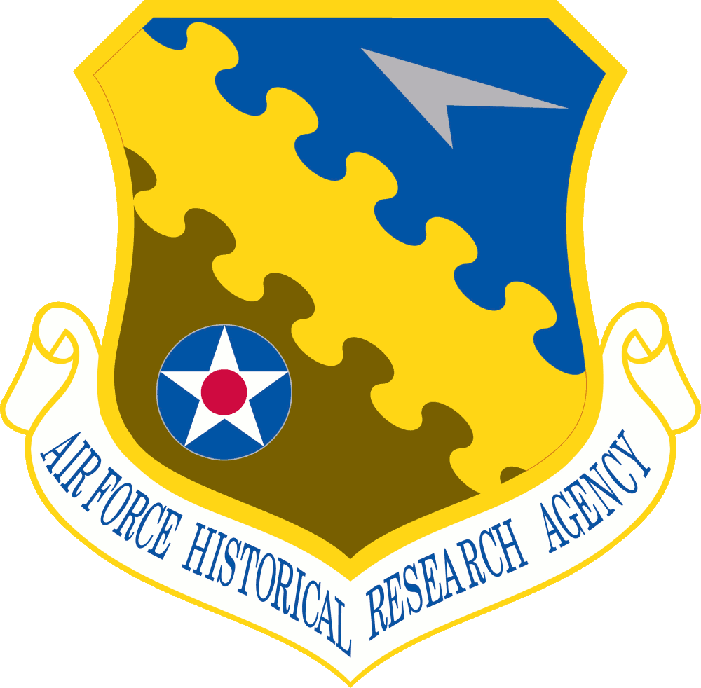 Emblem of the Air Force Historical Research Agency of the United States Air Force